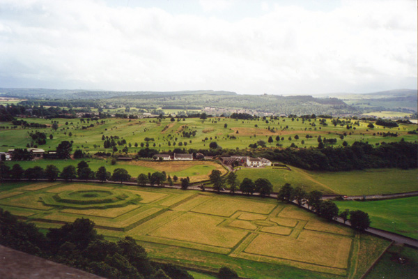 Photograph of the gardens at Stirling Castle in Scotland, taken in August 2005